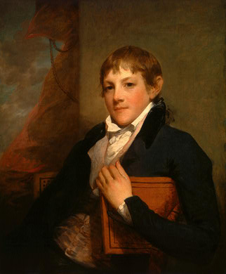 Portrait of John Randolph